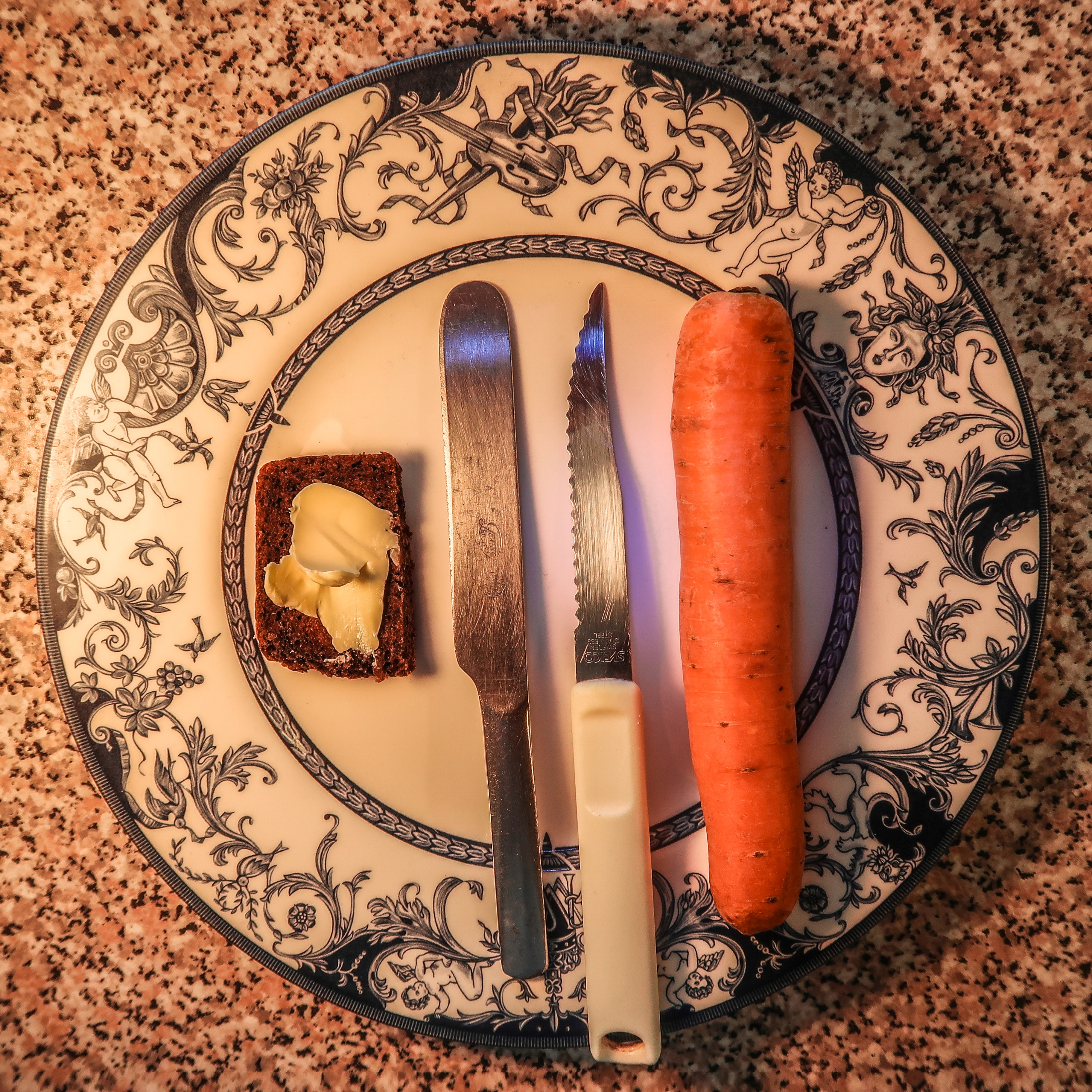 Butter knife (Gense, Sweden) and universal serrated kitchen knife (Sveico, Sweden).